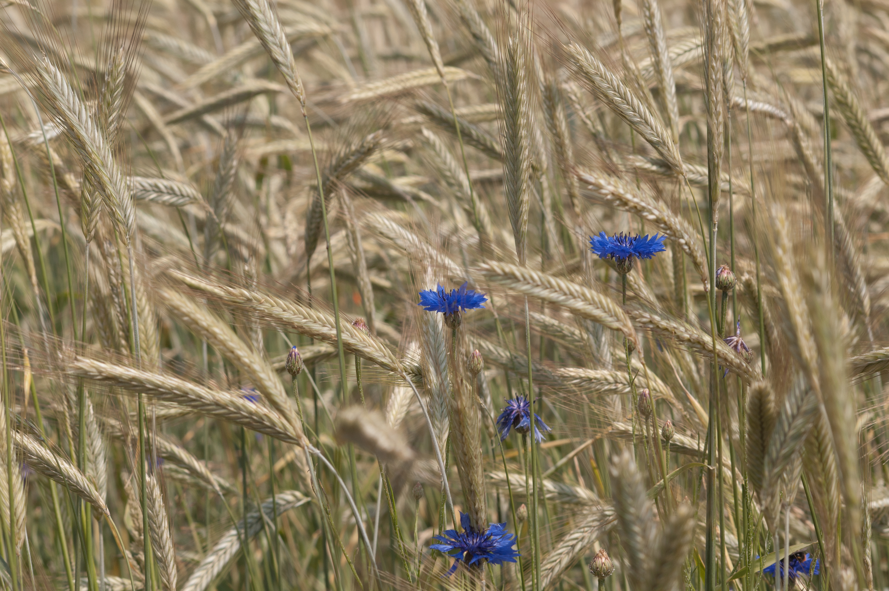 Rye with bluebottle